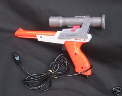 This picture is taken by me. No one holds any copyright on this. This picture supports my new page on an Nintendo Accessory to the NES zapper gun. There is VERY little onfo on the net on this item. Its called the "NINTENDO NES QUICK SHOT SIGHTING SCOPE".